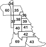 South side of Chicago, adapted from the Community areas of Chicago map. Created in Macromedia Flash 4. PNG-8 Index transparency.